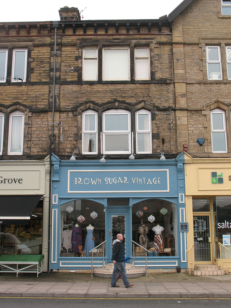 Oscar winning film maker Tony Richardson's house from 1928 to 1948, 28 Bingley Road, Shipley.